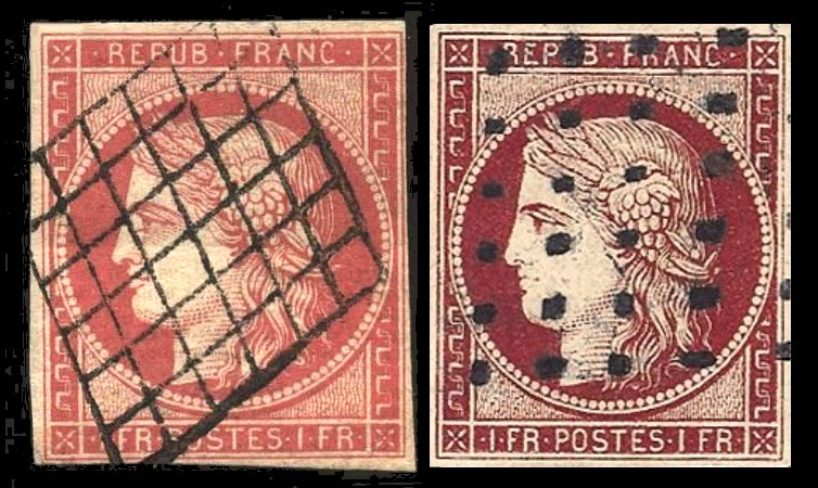 first stamps of France, 1849 : 1 franc rouge (vermillon red and carmin red)